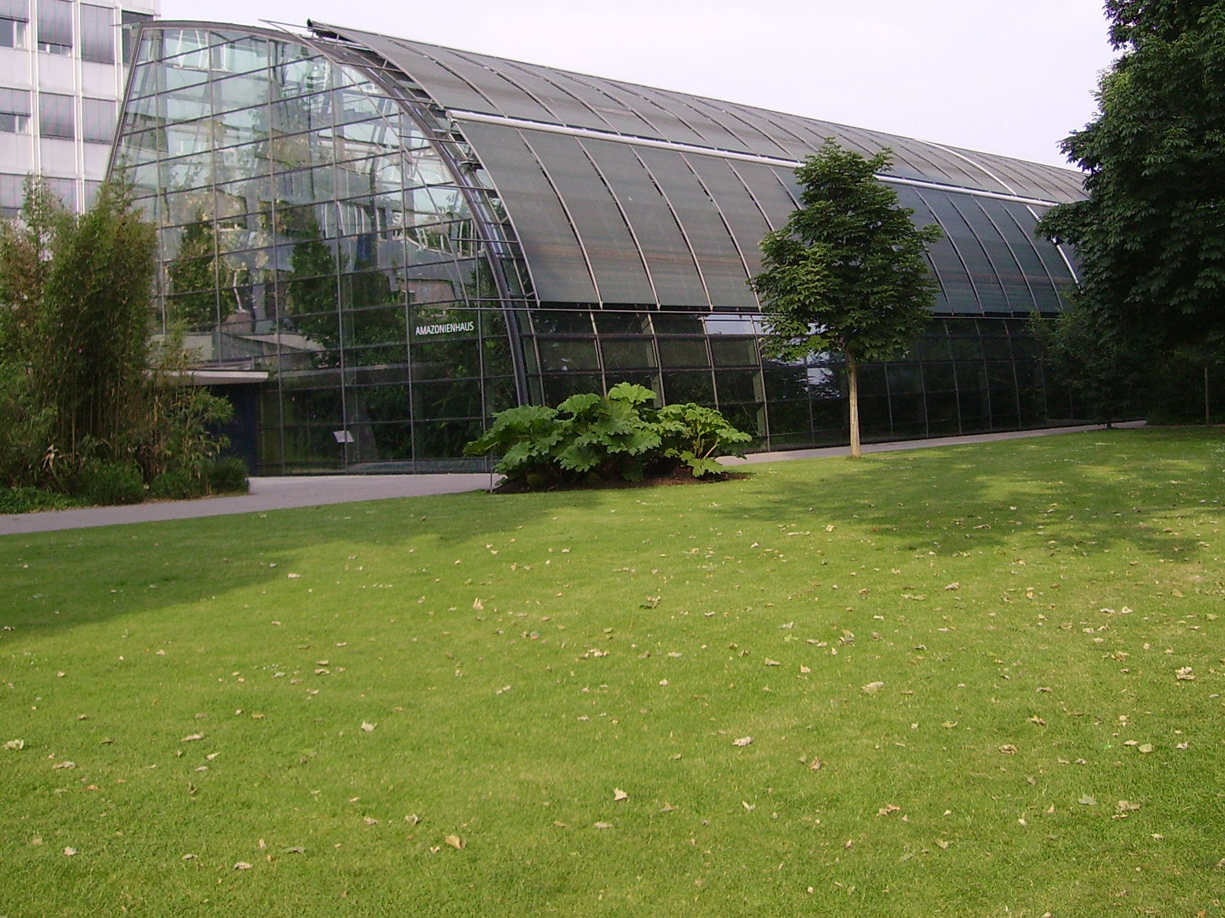 zoological garden and botanical garden Wilhelma in Stuttgart, Germany